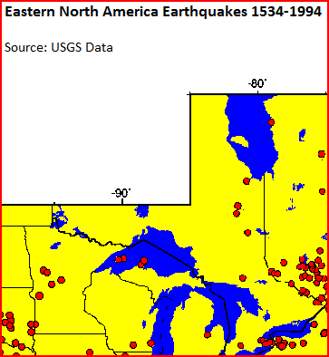 The red circles show earthquakes in Minnesota, Wisconsin, the Upper Peninsula of Michigan and Ontario.